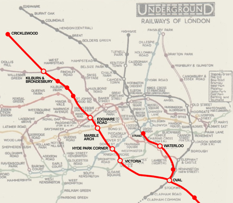 Illustration of the route of proposed Kearney Tube underground railway (1905) which was planned to run under Edgware road in London, UK, shown superimposed on a 1926 London Underground map. The line was never built.